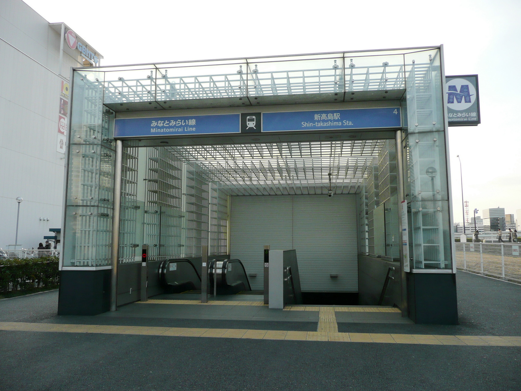 Yokohama Minatomirai Railway,Shin-takashima Station no.4 entrance. / みなとみらい線新高島駅4番出入口